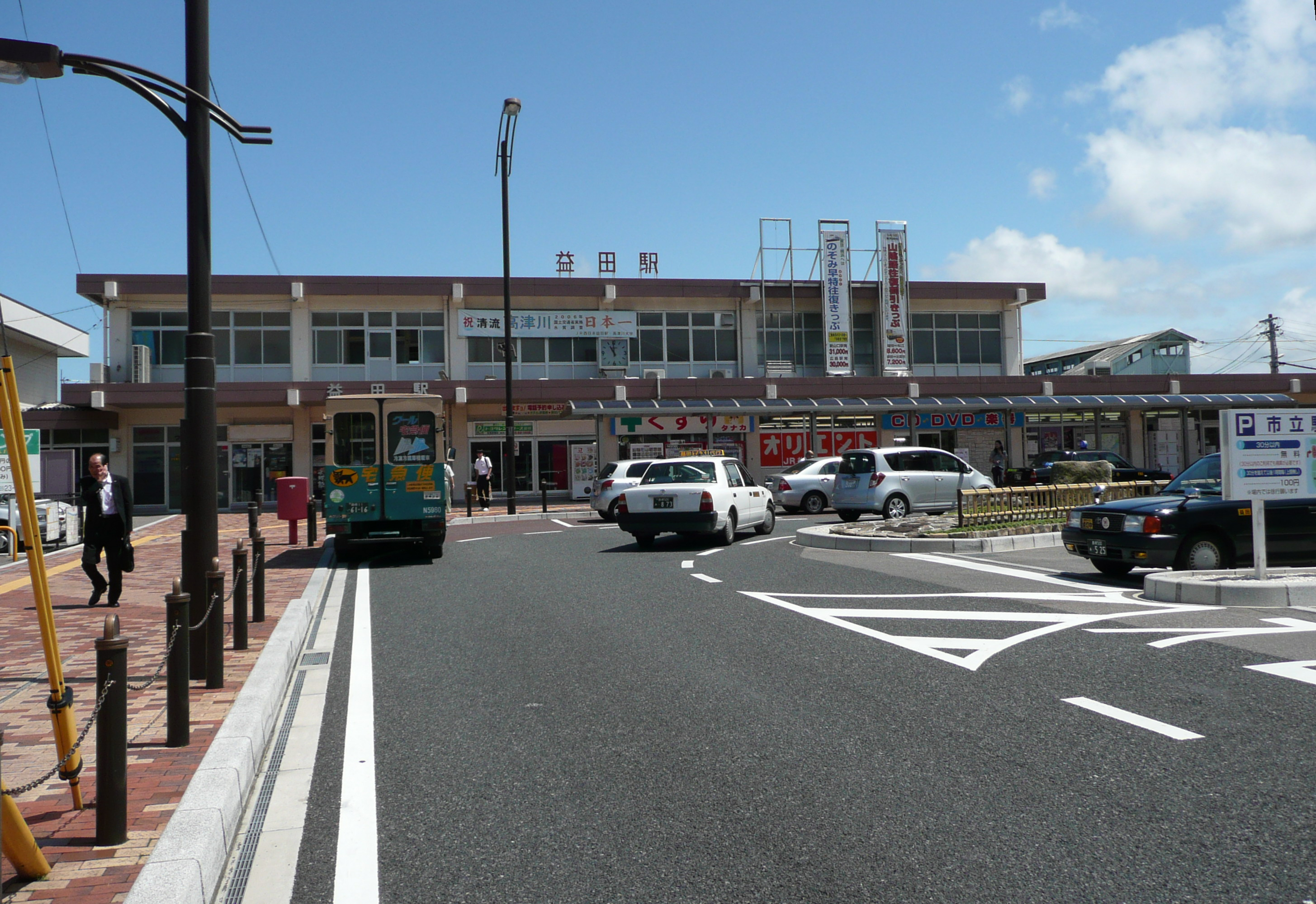 益田駅舎